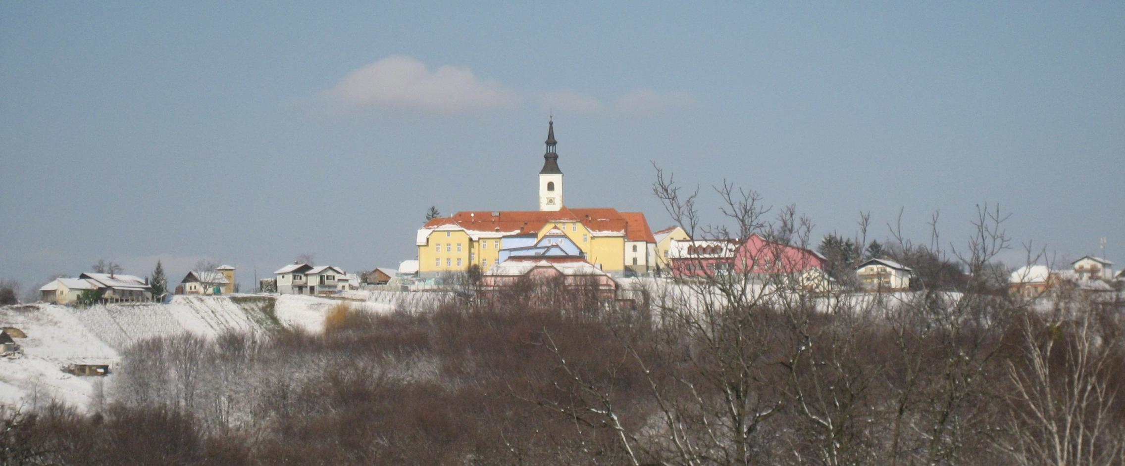 The focus of the picture, Saint Urban's Church (the spire and white nave to the right), is in the settlement of Destrnik. The yellow building in front of the church and the houses and fields in the foreground are in the adjacent settlement of Janežovski Vrh. photo:Ziga 07:16, 30 January 2007 (UTC)